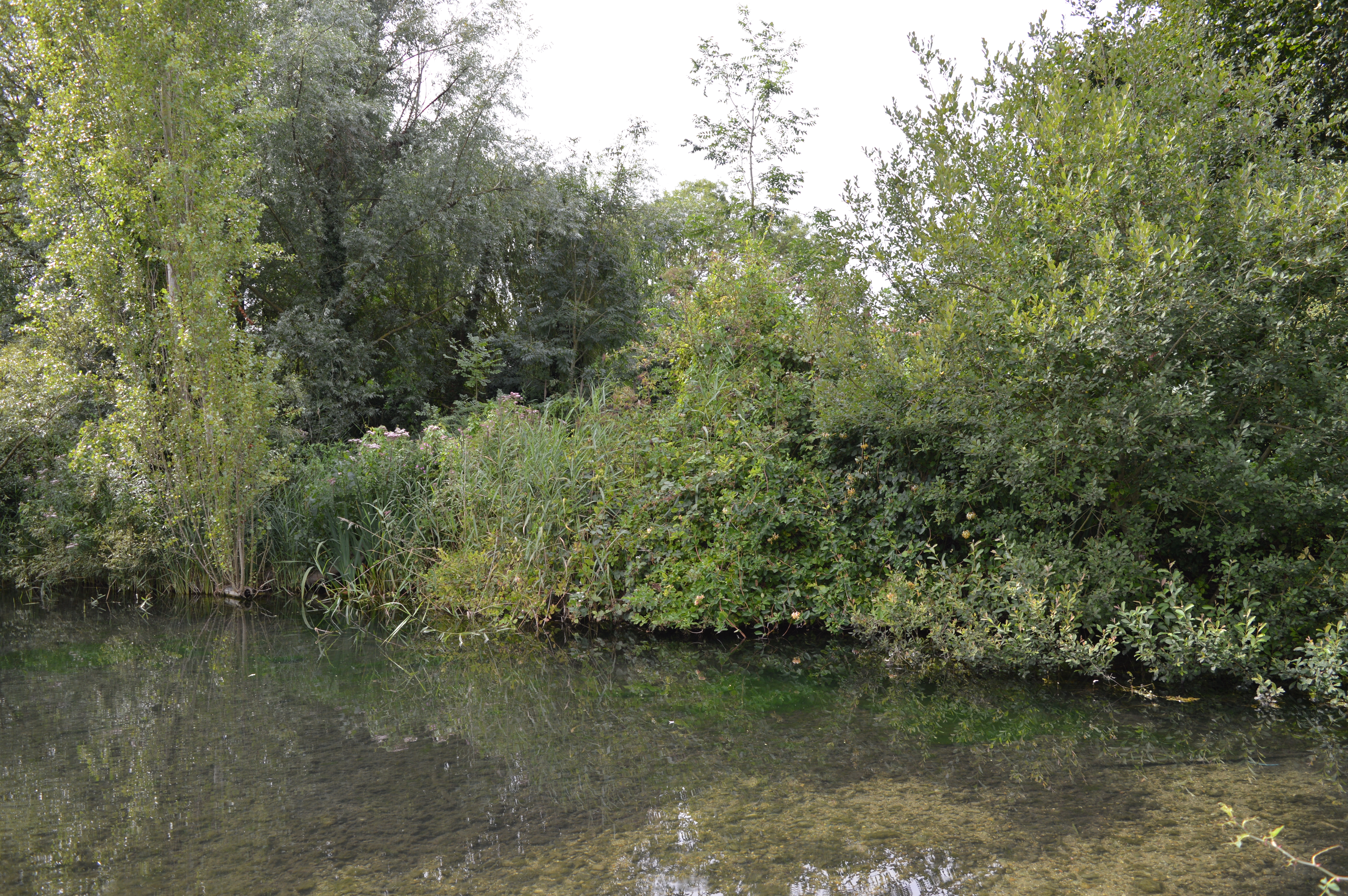 Oughtonhead Nature Reserve, managed by the Herts and Middlesex Wildlife Trust. This site on the north bank of the River Oughton is not accessible and the photos were taken from the south bank in Oughtonhead Common